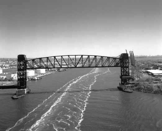 Arthur Kill Vertical Lift Bridge, largest vertical lift bridge in the world